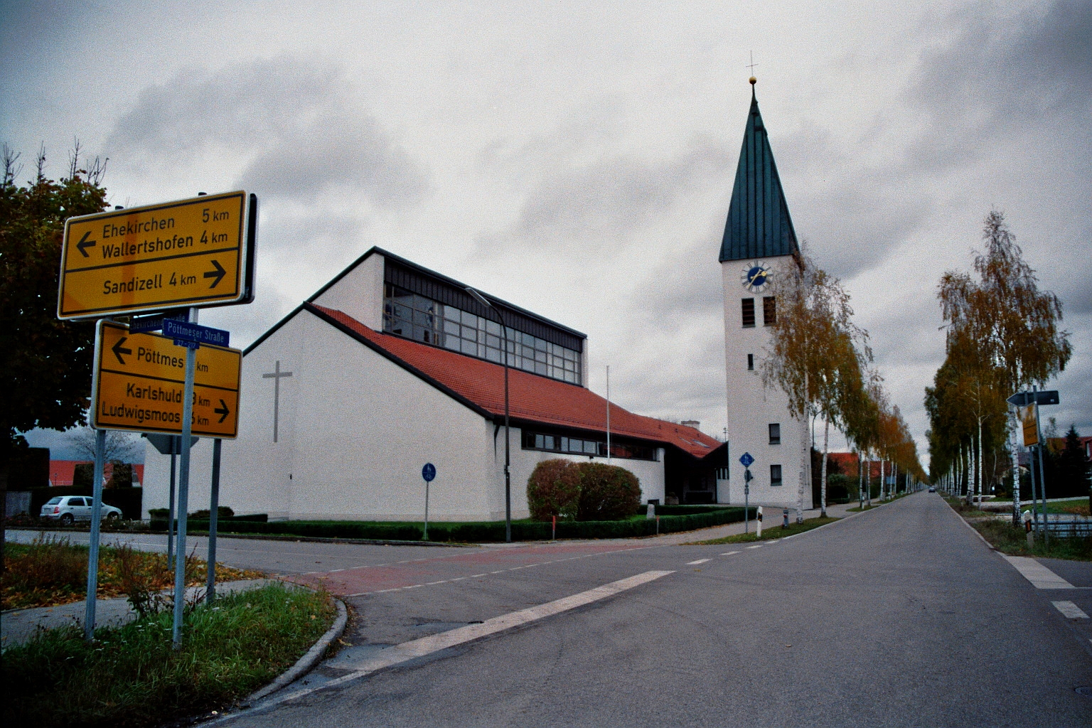 Roman Catholic St Joseph (St. Josef) Church in Klingsmoos, part of Königsmoos, District Neuburg-Schrobenhausen, Bavaria, Germany. The church interior is a listed cultural heritage monument.